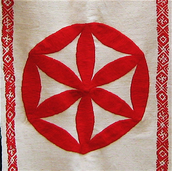 The flag of the SHR (Croatian Rodnovers' Alliance)